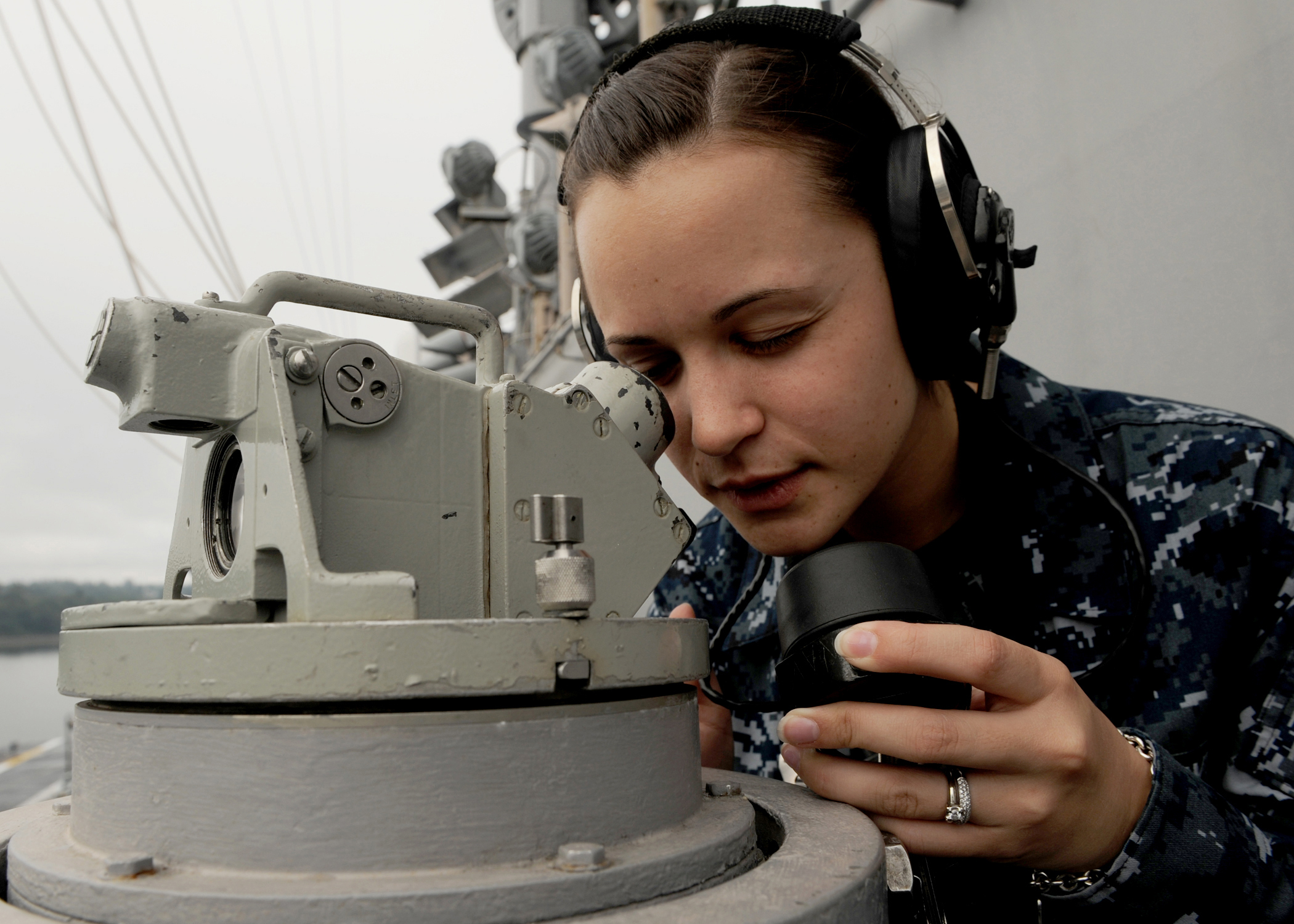 PACIFIC OCEAN (Sept. 7, 2010) Quartermaster Seaman Verda Butler, from Independence, Ky., looks through an alidade to find the visual bearings of the distance objects near the ship and report the points. The Lincoln Carrier Strike Group is conducting maritime security operations and theater security cooperation efforts. (U.S. Navy photo by Mass Communication Specialist Seaman Jerine Lee/Released)